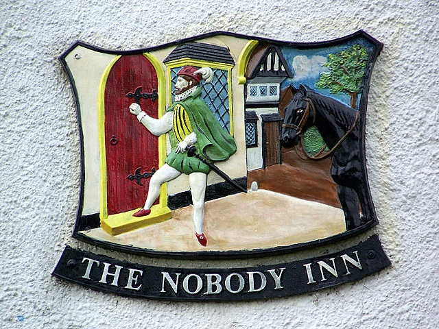 The sign for the Nobody Inn, Doddiscombsleigh The sign shows a traveller in Elizabethan dress with his horse nearby.